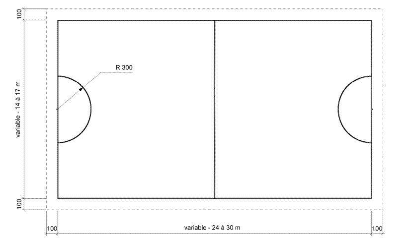 Tchoukballground.gif